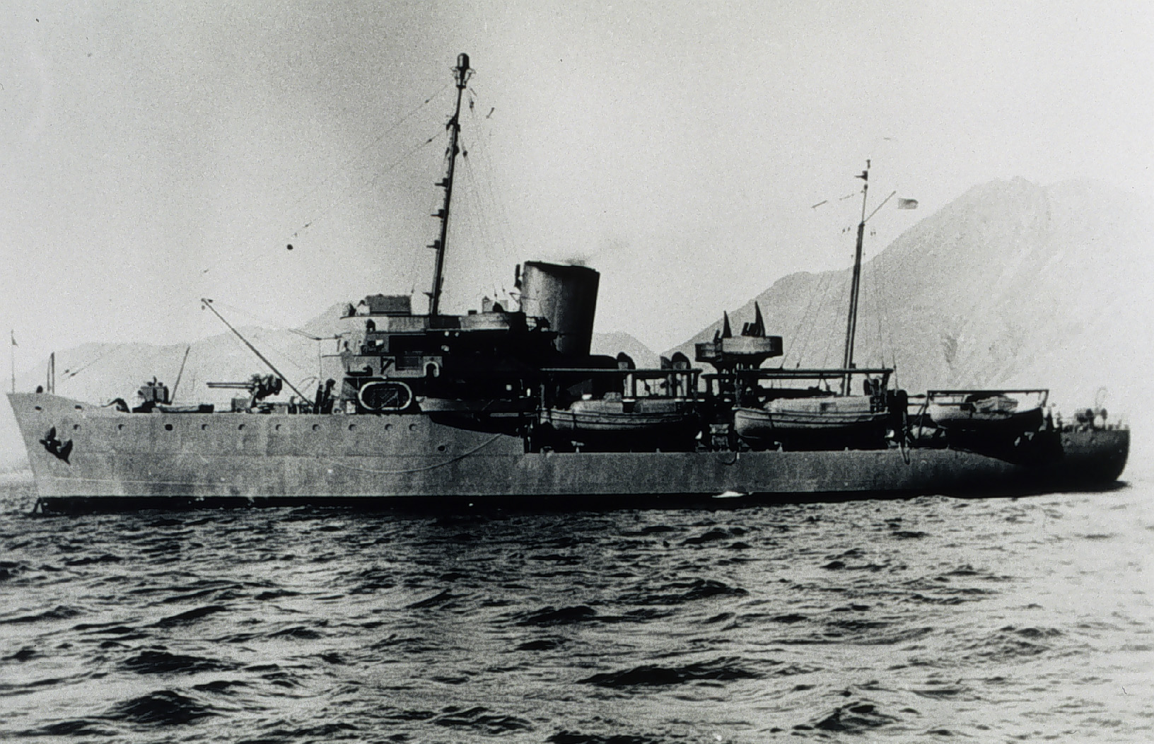 EXPLORER in Aleutians. Note bow gun and covered anti-aircraft guns.